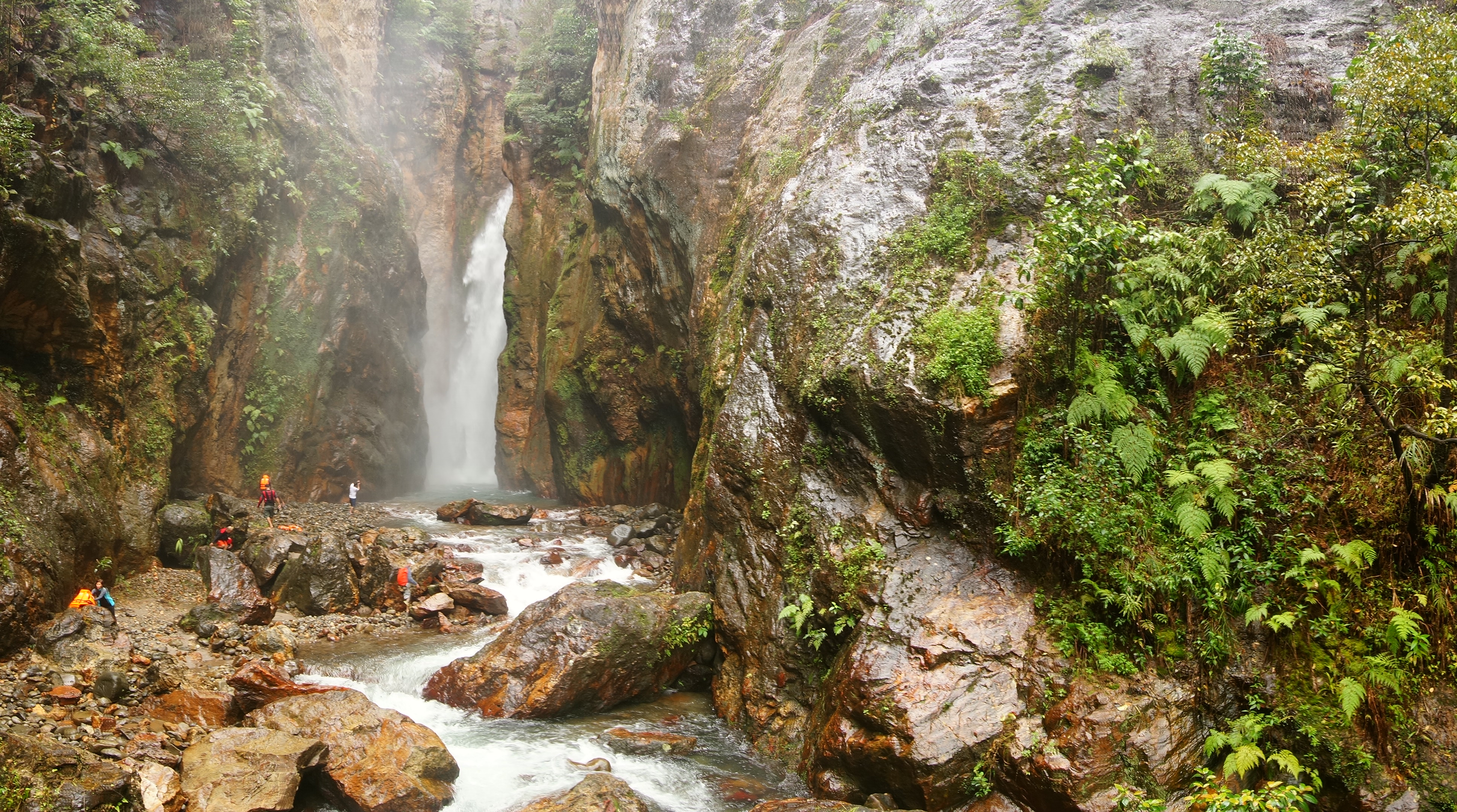 The tallest waterfalls in Amlan called Amlan Pasalan.